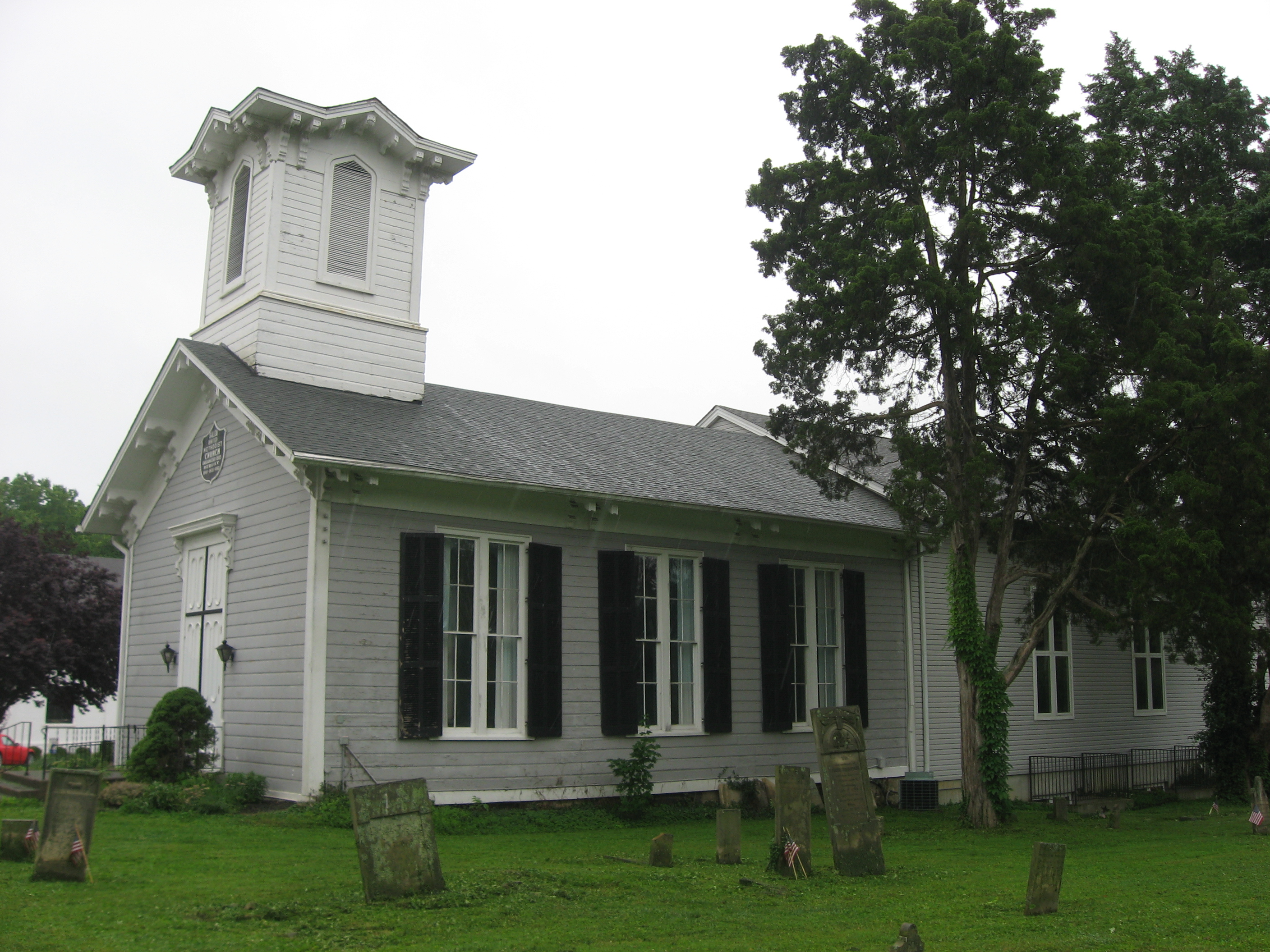 Front and side of Salem Community Church, a United Methodist church located at 6137 Salem Road southeast of Cincinnati in Anderson Township, Hamilton County, Ohio, United States. Built in 1863, it is listed on the National Register of Historic Places along with a related church school and cemetery.